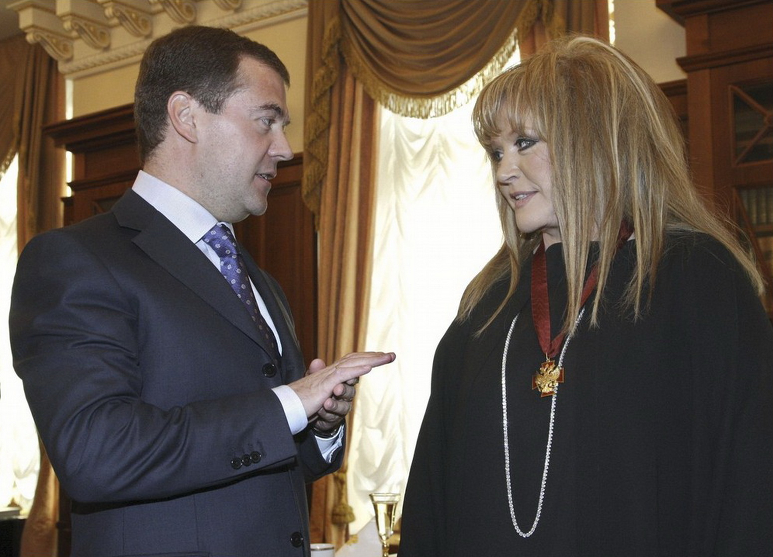 Moscow. Kremlin. With Alla Pugacheva